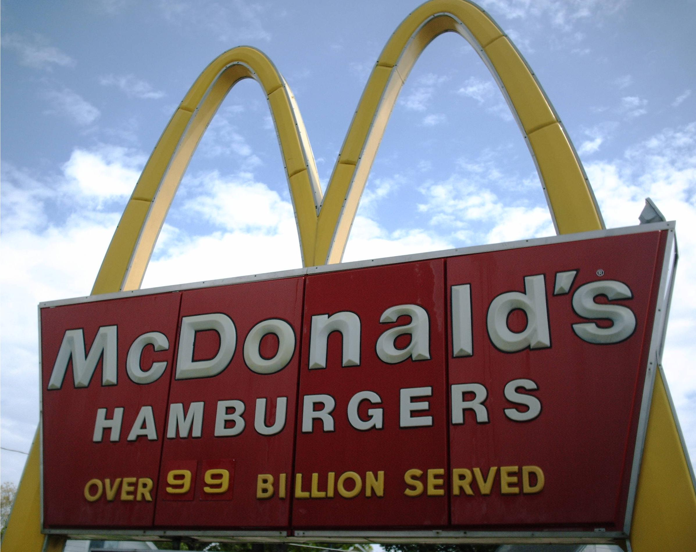 Photo I took 2006-05-20 in Austin, Minnesota. CC & GFDL.